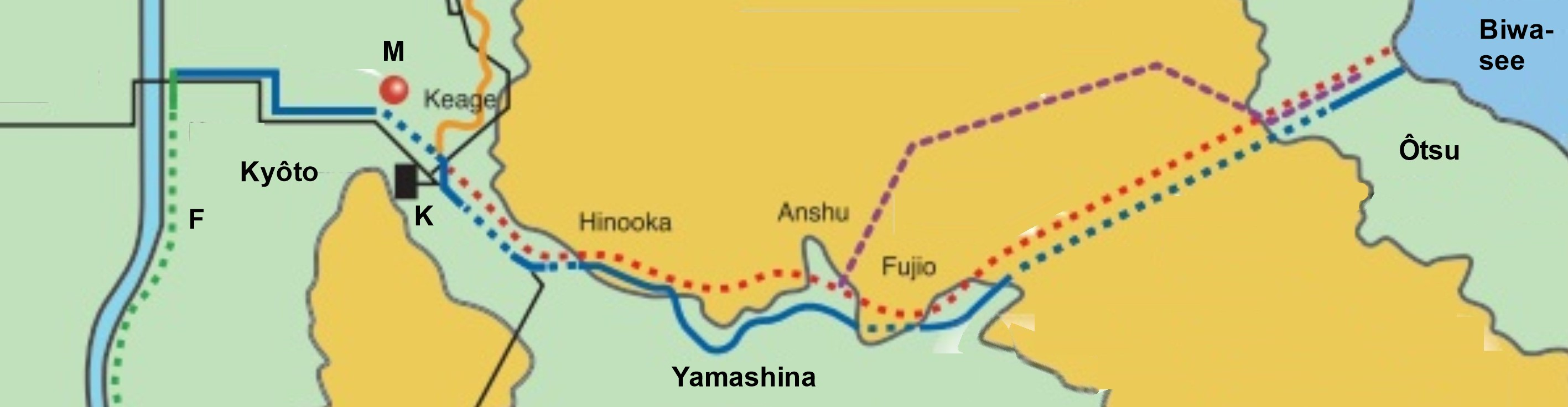 Map of Lake Biwa channel